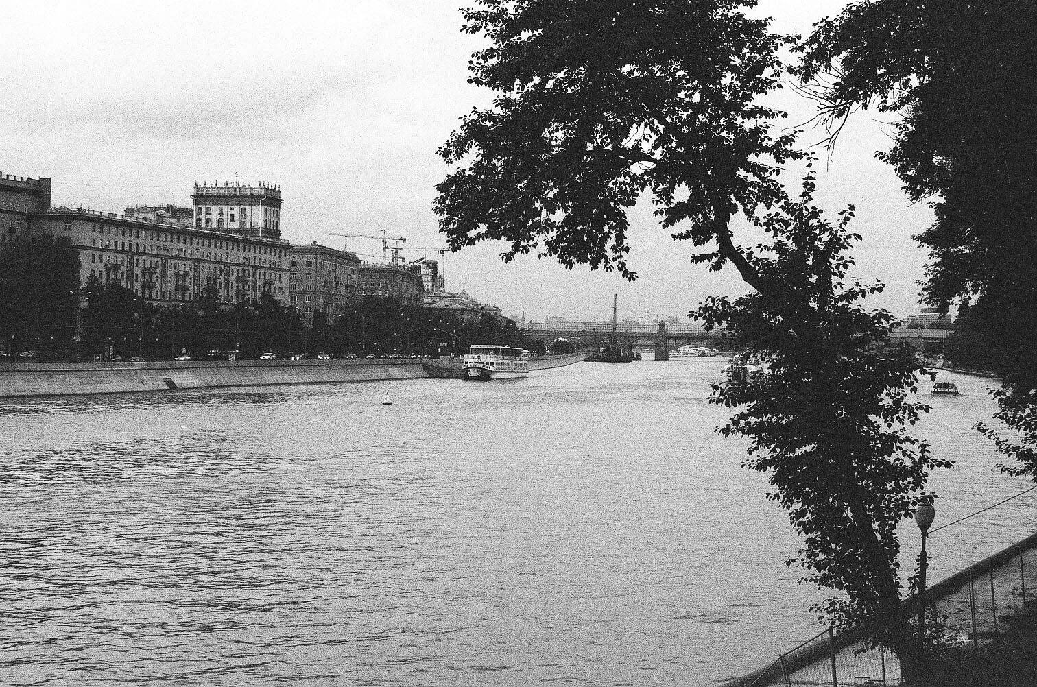 Moscow river from Andreevsky Bridge, september 2014 - Fomapan 100